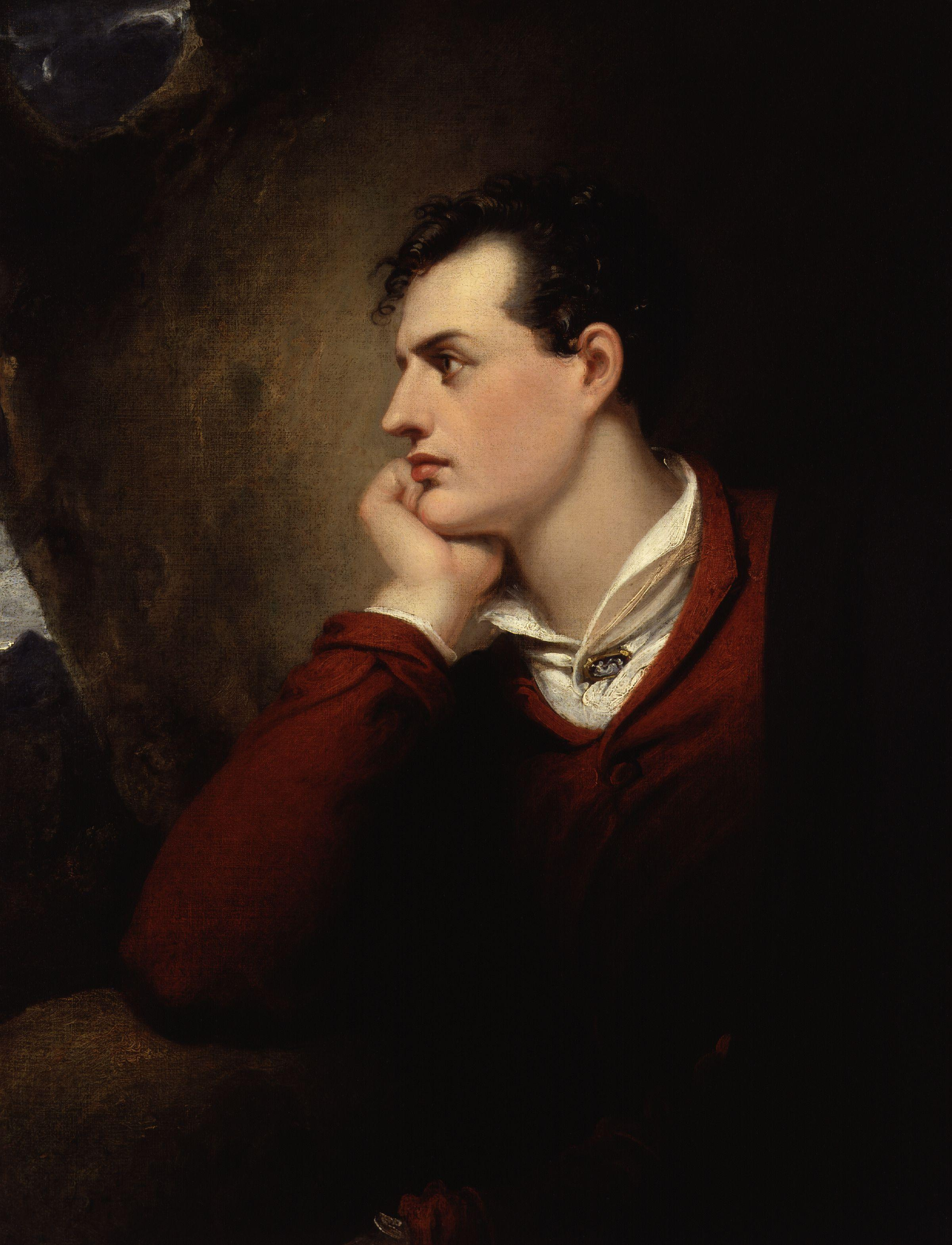 All images in this batch have been confirmed as author died before 1939 according to the official death date listed by the NPG.